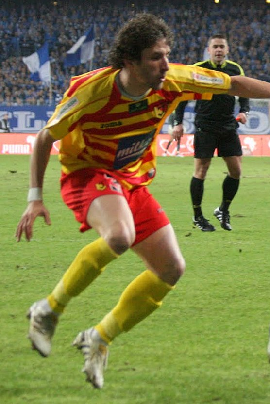 Montenegrin football player Mladen Kašćelan (Mлaдeн Kaшћeлaн)